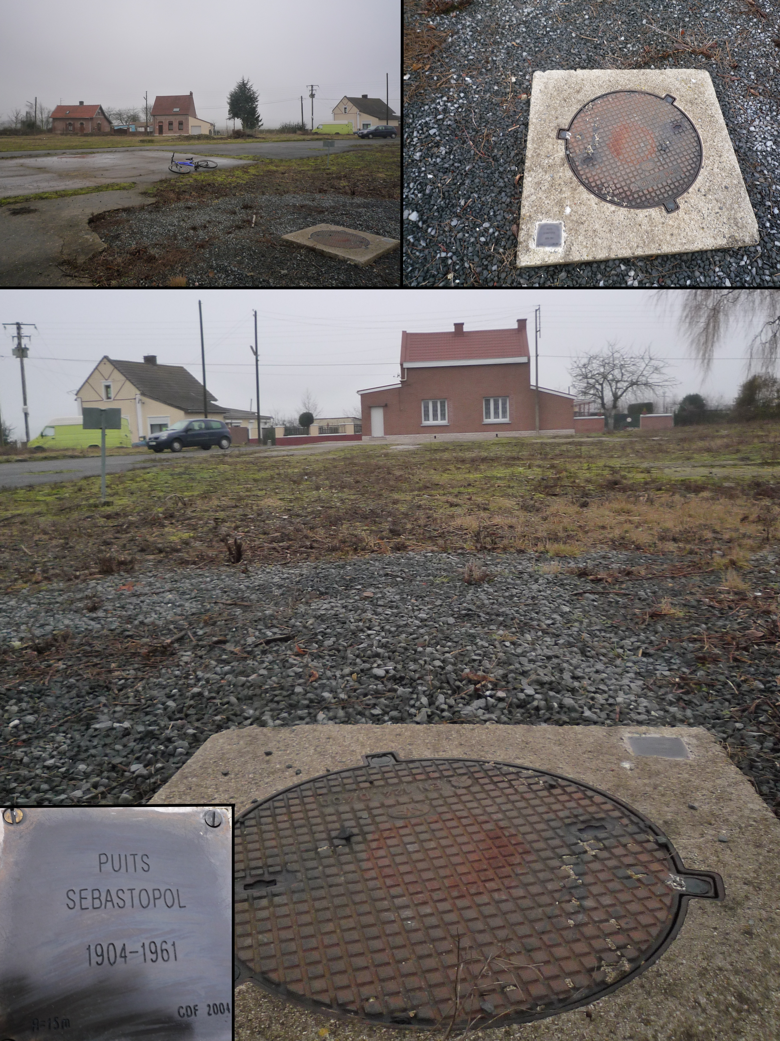 Pit of the Compagnie des mines d'Aniche, France.